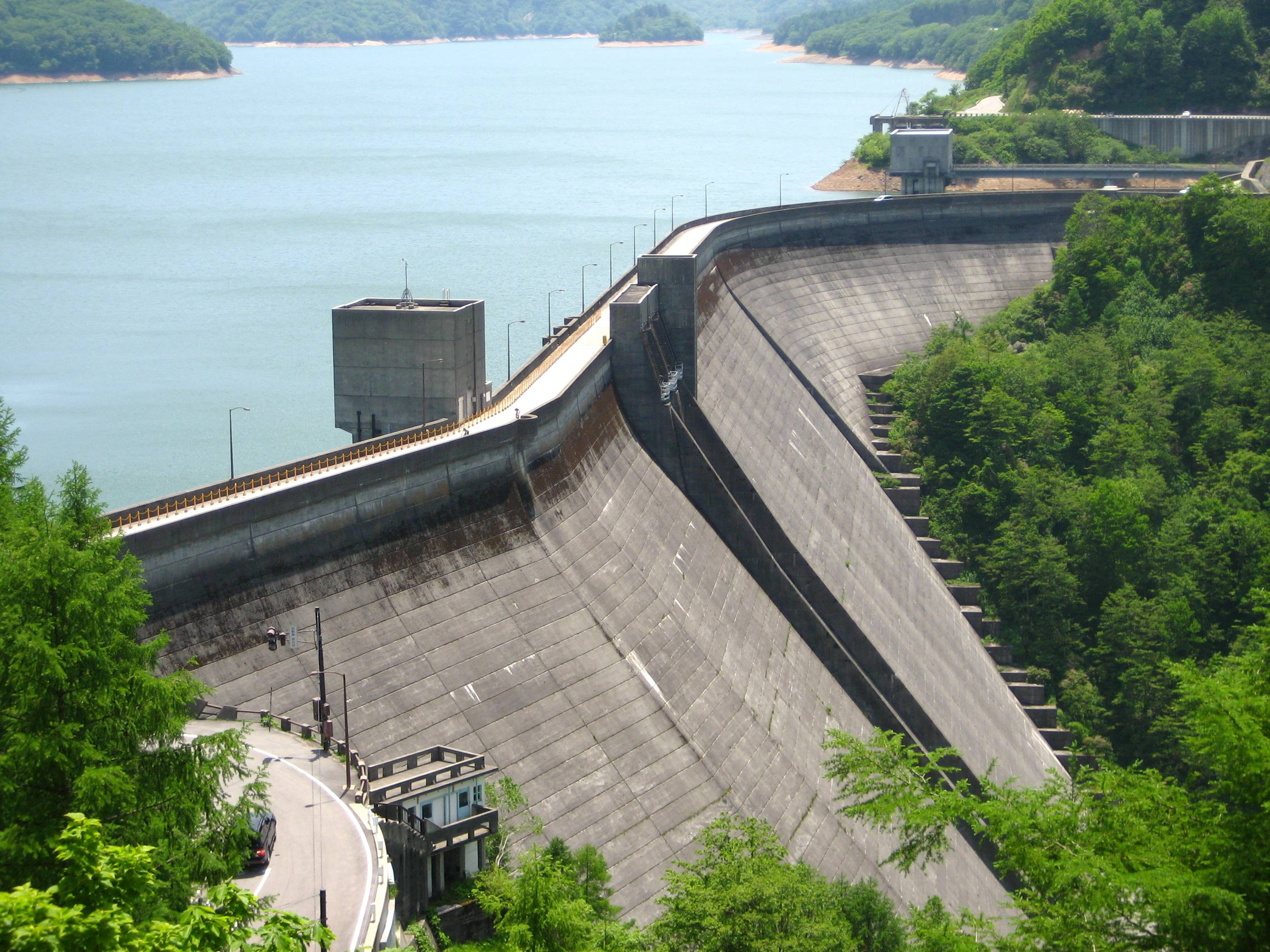 Arimine Dam (有峰ダム) in Toyama city, Toyama prefecture, Japan.